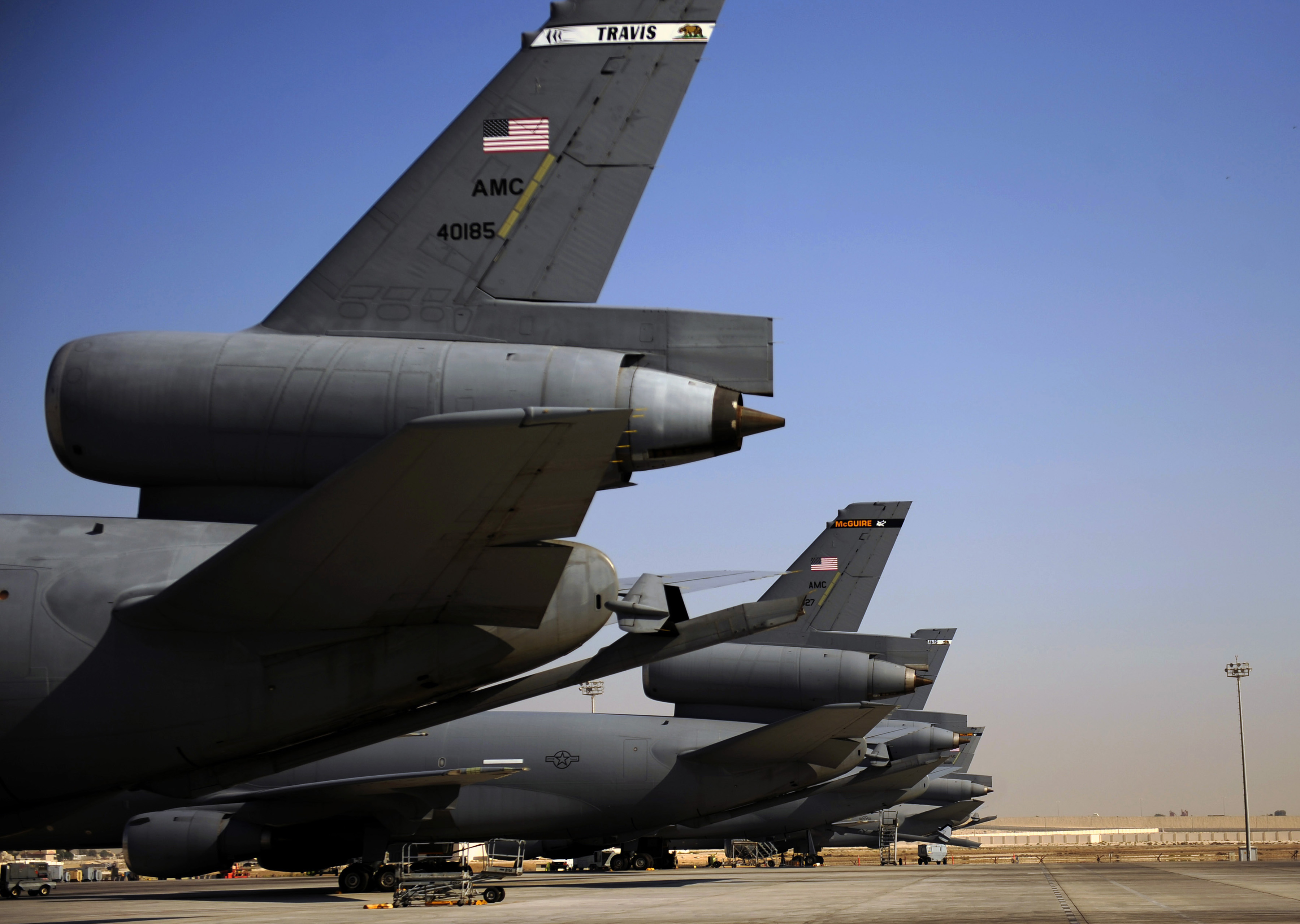 U.S. Air Force KC-10 Extender aircraft assigned to the 908th Expeditionary Air Refueling Squadron park in line on the flight line Nov. 25, 2010, while deployed at an undisclosed location in Southwest Asia. (U.S. Air Force photo by Staff Sgt. Andy M. Kin)